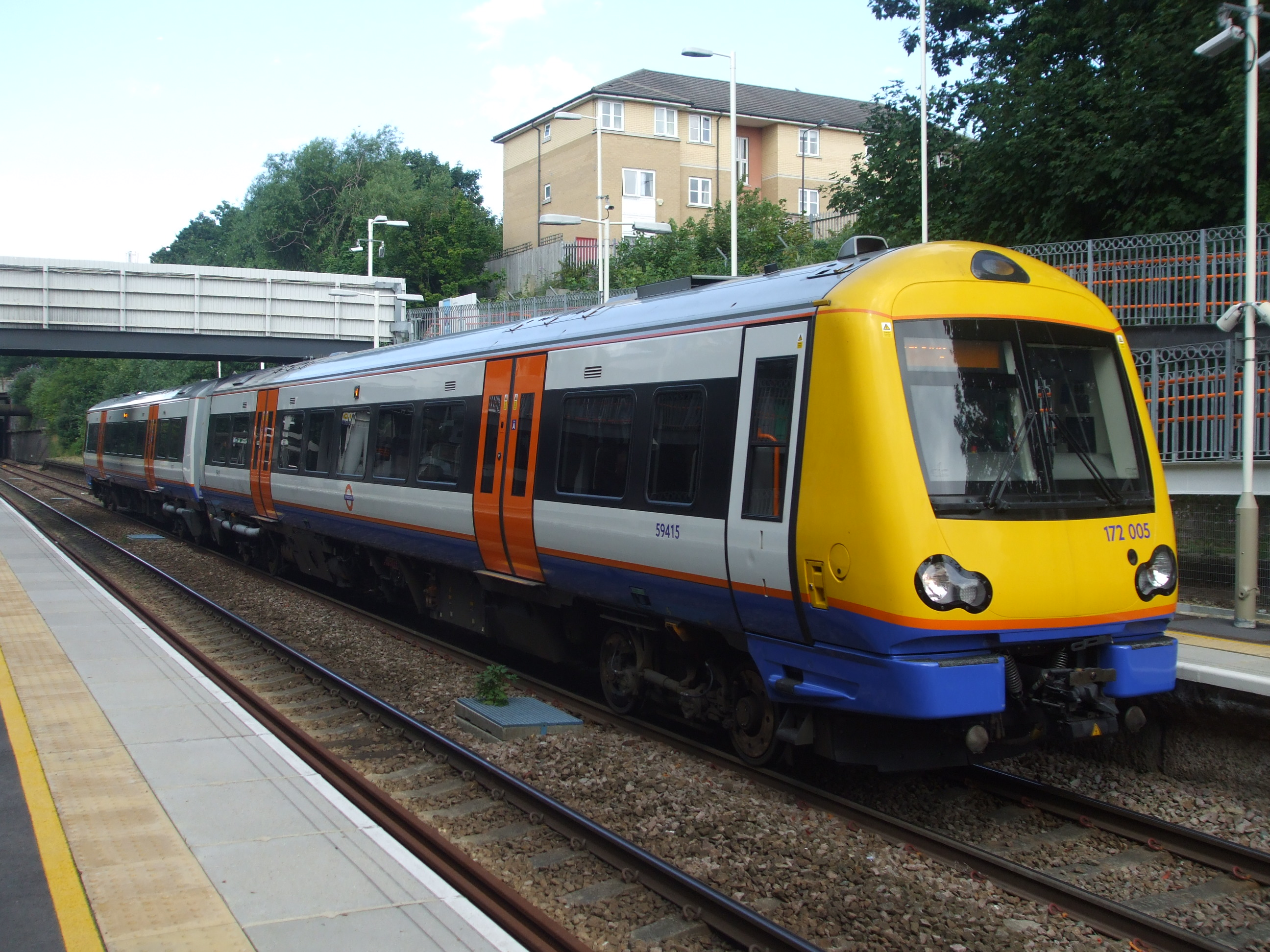 Class 172 unit 172005 calls at Walthamstow Queen's Road with a Barking service.